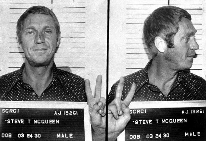 Mugshot taken following arrest of actor Steve McQueen in Anchorage, Alaska, 1972.